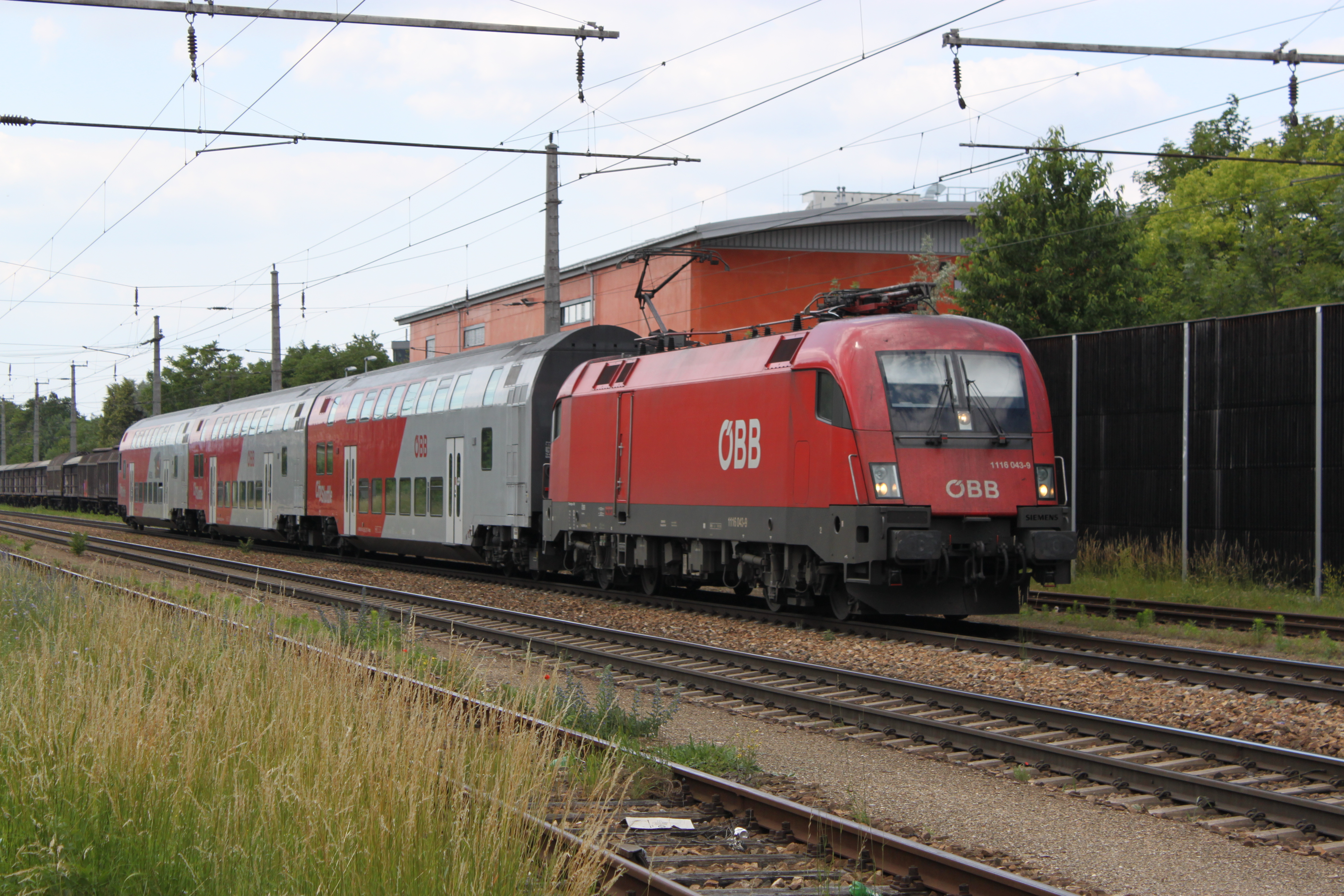 Electric locomotive OeBB 1116 043 with city shuttle train, Oberlaa, Vienna